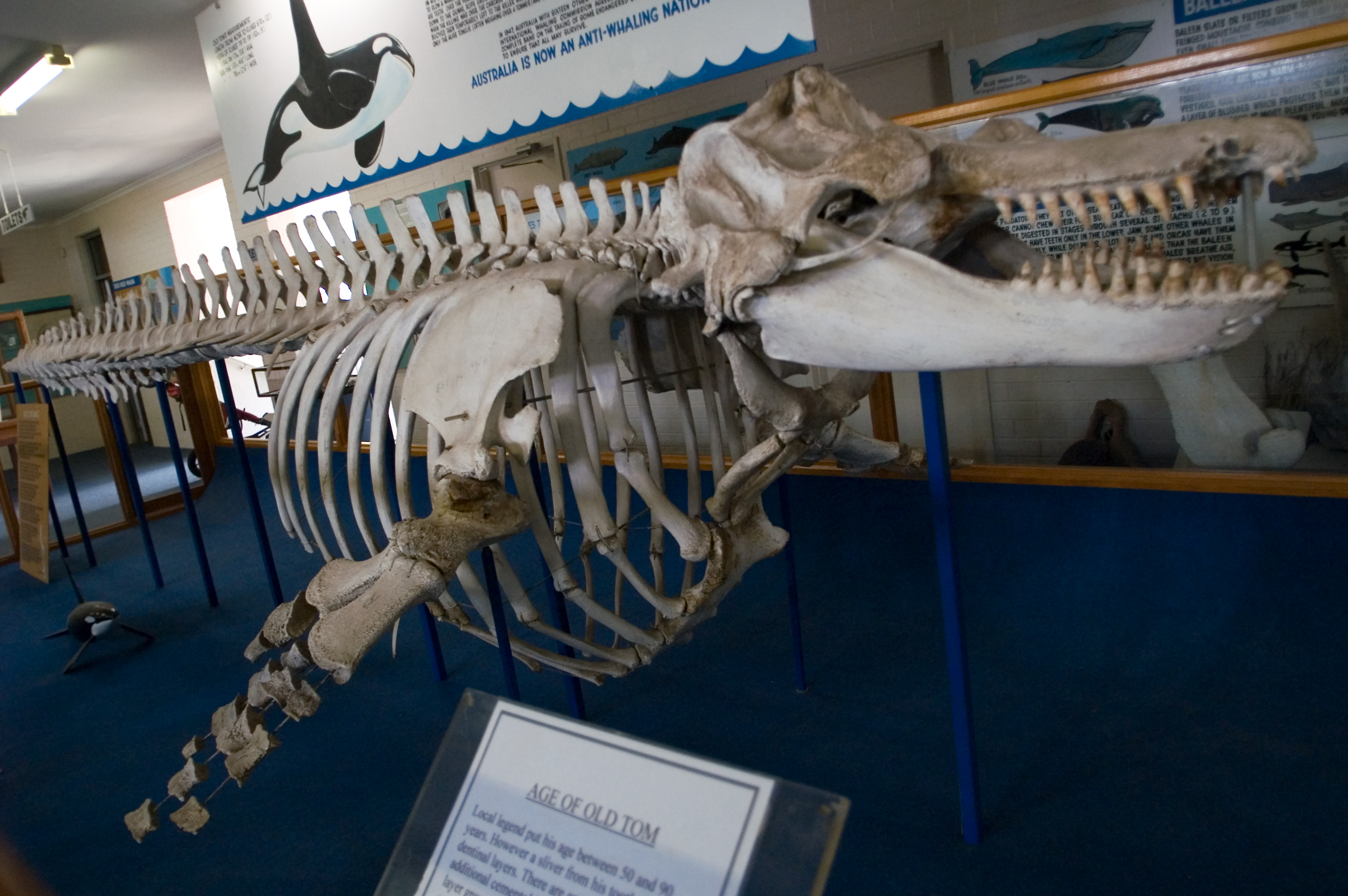 Squeleton of Old Tom (1895 - 1930), a killer whale which helped the whalers of Eden (NSW) by herding baleen whales into Twofold Bay. Eden Maritime Museum.